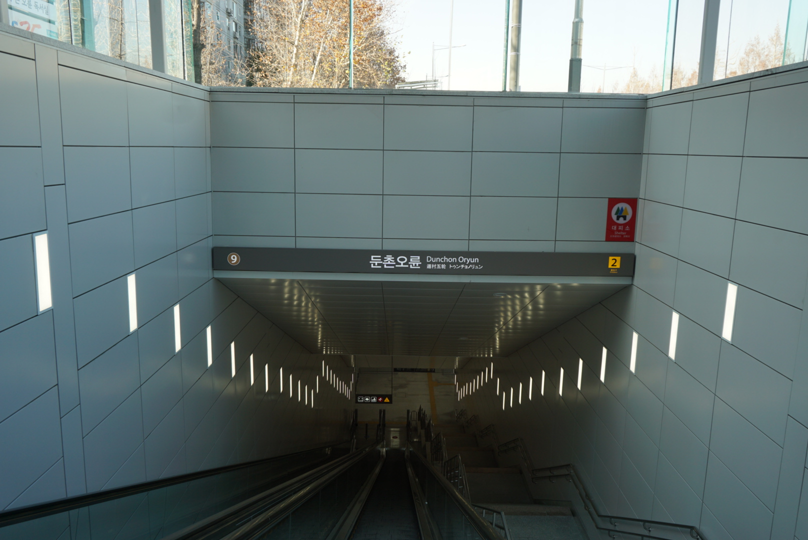 A scenery of Dunchon Oryun Station Exit 1